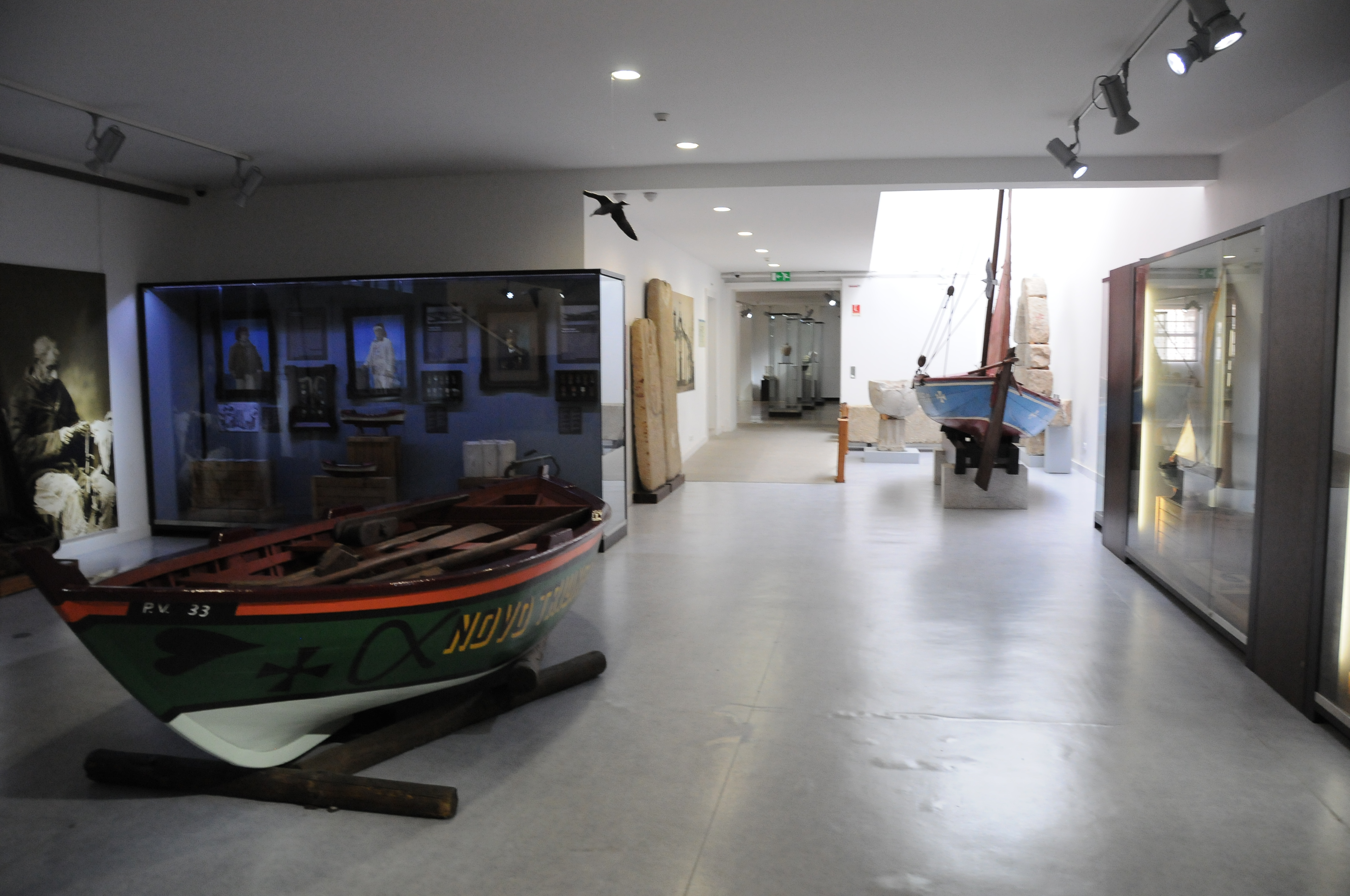 Museu Municipal de Etnografia e História da Póvoa de Varzim